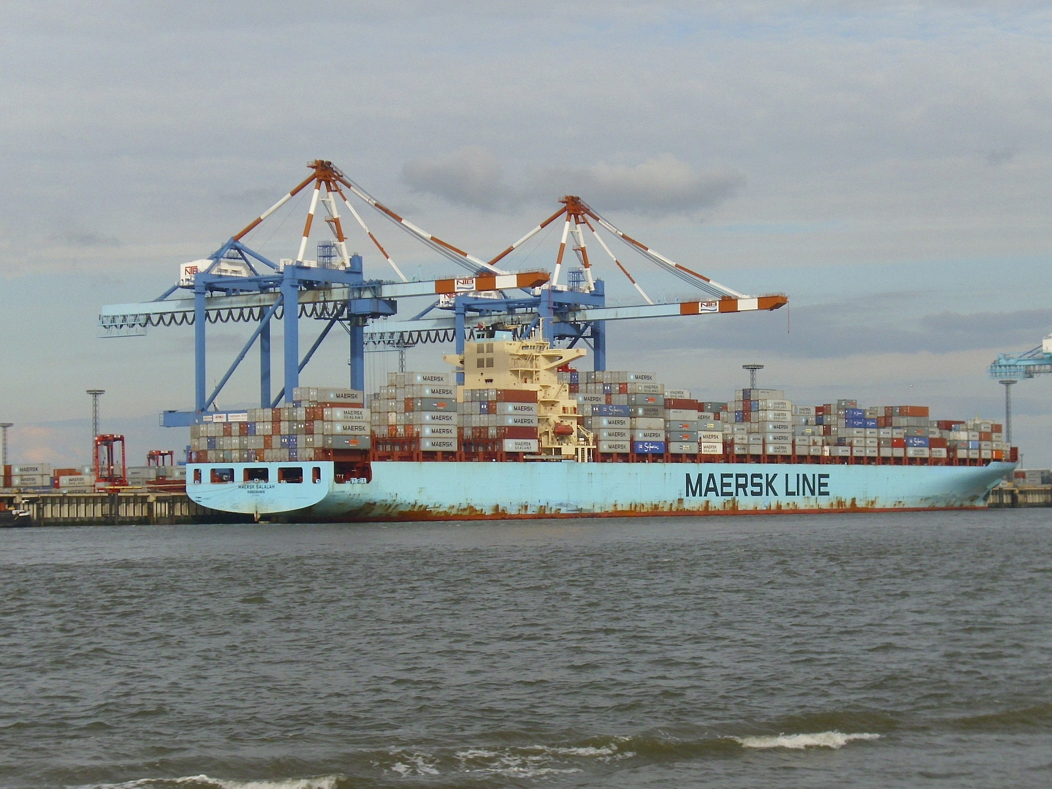 The container ship Maersk Salalah at the northern end of the container terminal of Bremerhaven in Germany